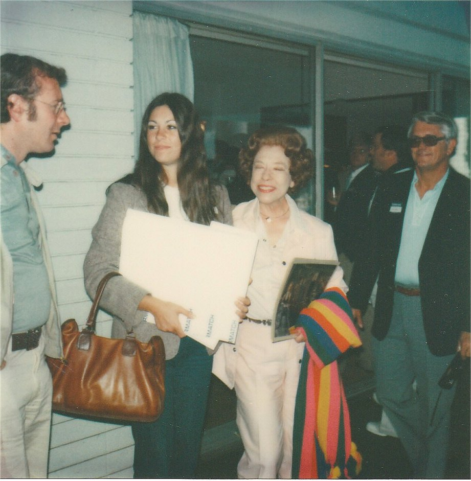 Steve Landesberg, Diana Canova and mom Judy Canova - May, 1979 - at the National Film Society convention.